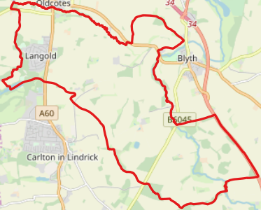 Map of the Langold ward of Bassetlaw. This map may be incomplete, and may contain errors. Don't rely solely on it for navigation.